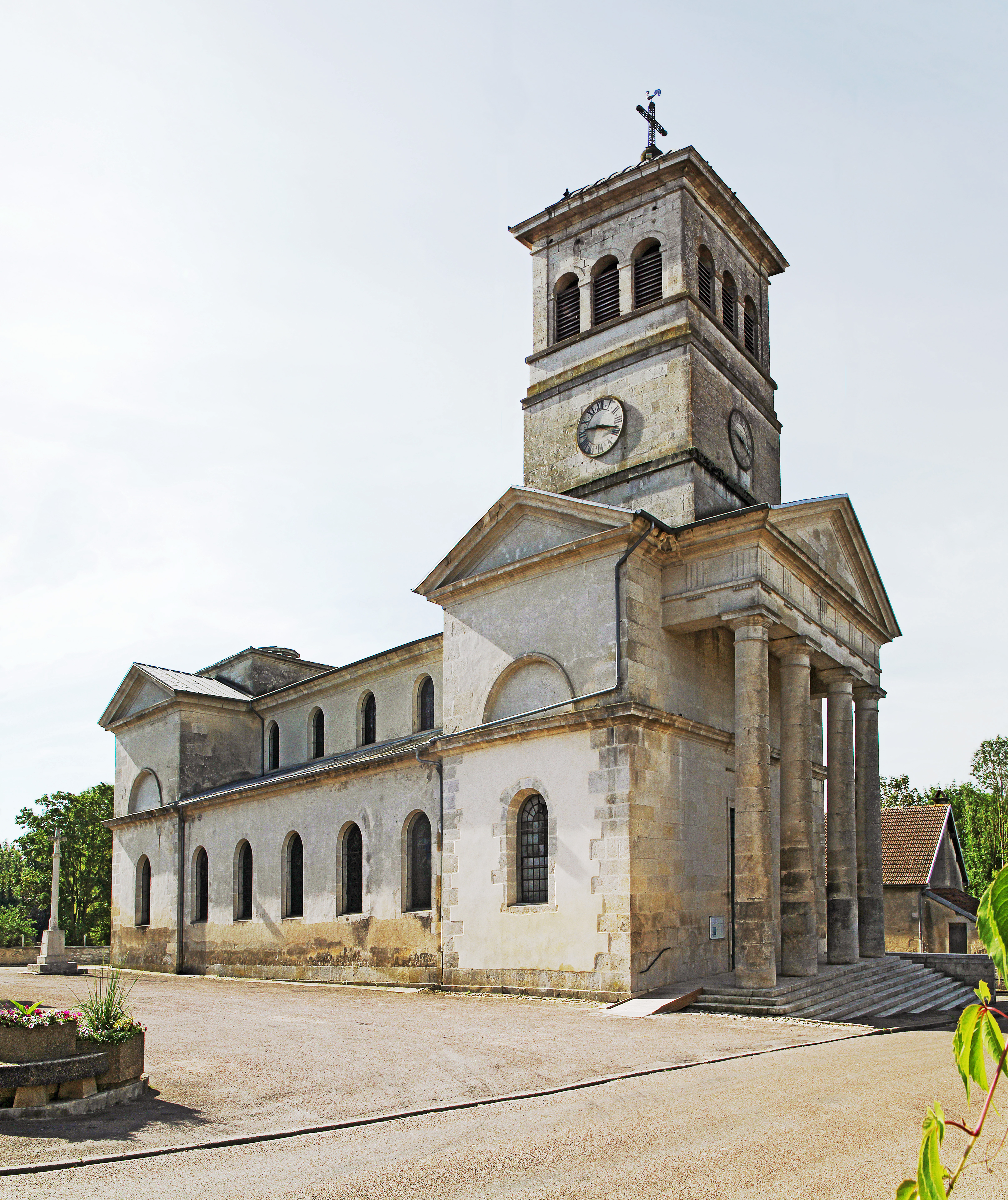 Church of the Nativity in Voulaines-les-Templiers